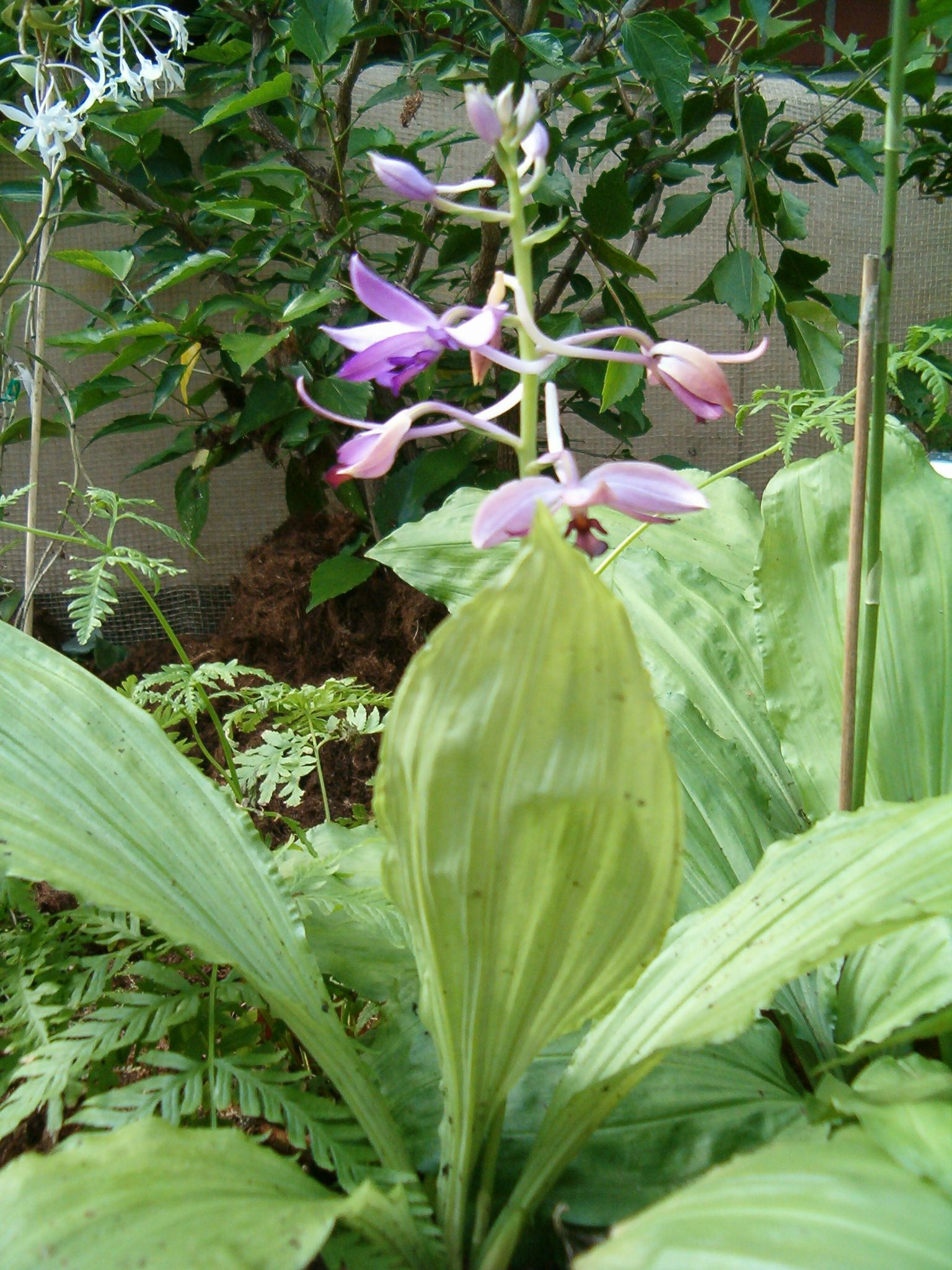 Calanthe sylvatica, Habitus and Flowers Location: Botanical Gardens Berlin - Orchid Exhibition